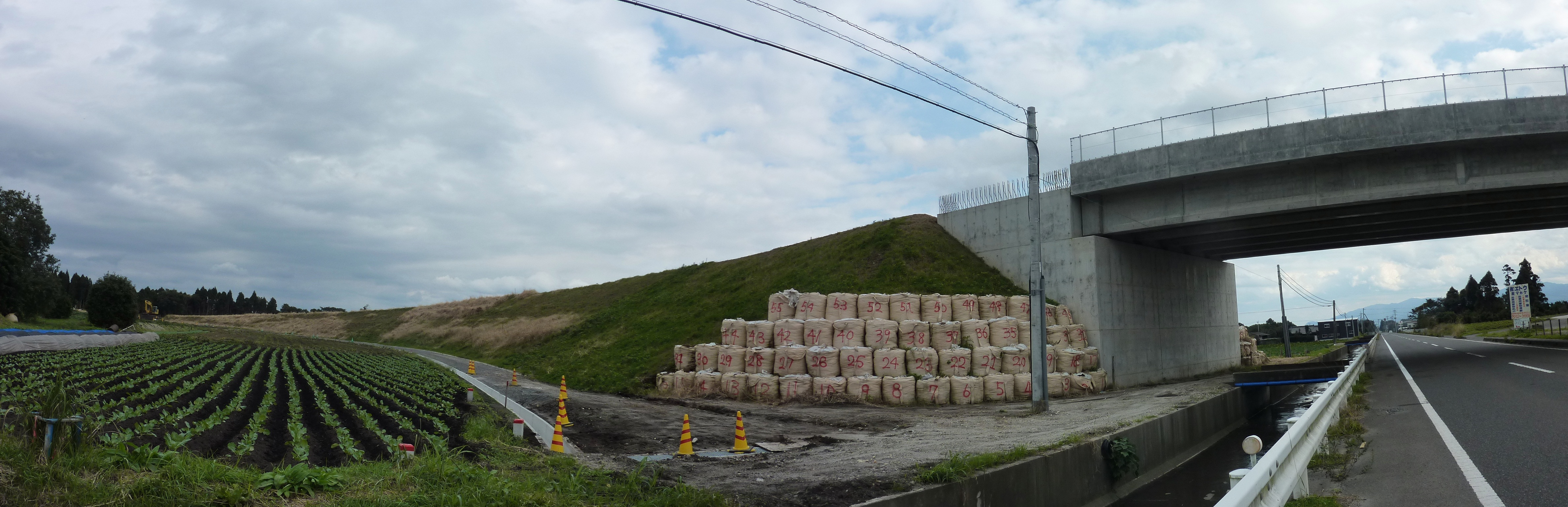 Construction site of Kanoya Kushira Junction on the Higashi-Kyushu Expressway and Osumi Jukan Road in Kanoya City, Kagoshima Prefecture, Japan